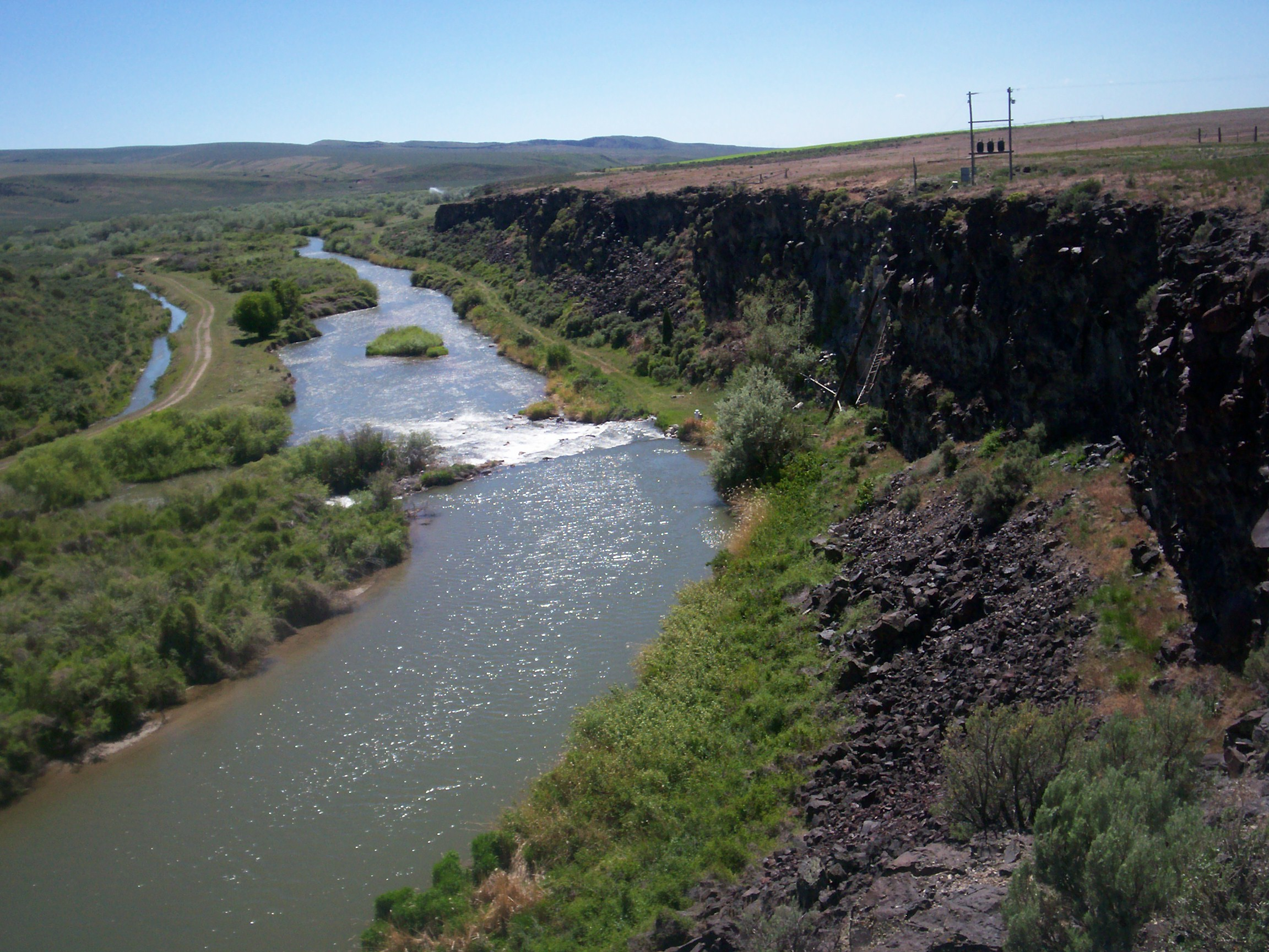 Wolverine Creek cuts through the basalt rock of the Blackfoot Mountains to form Wolverine Canyon.